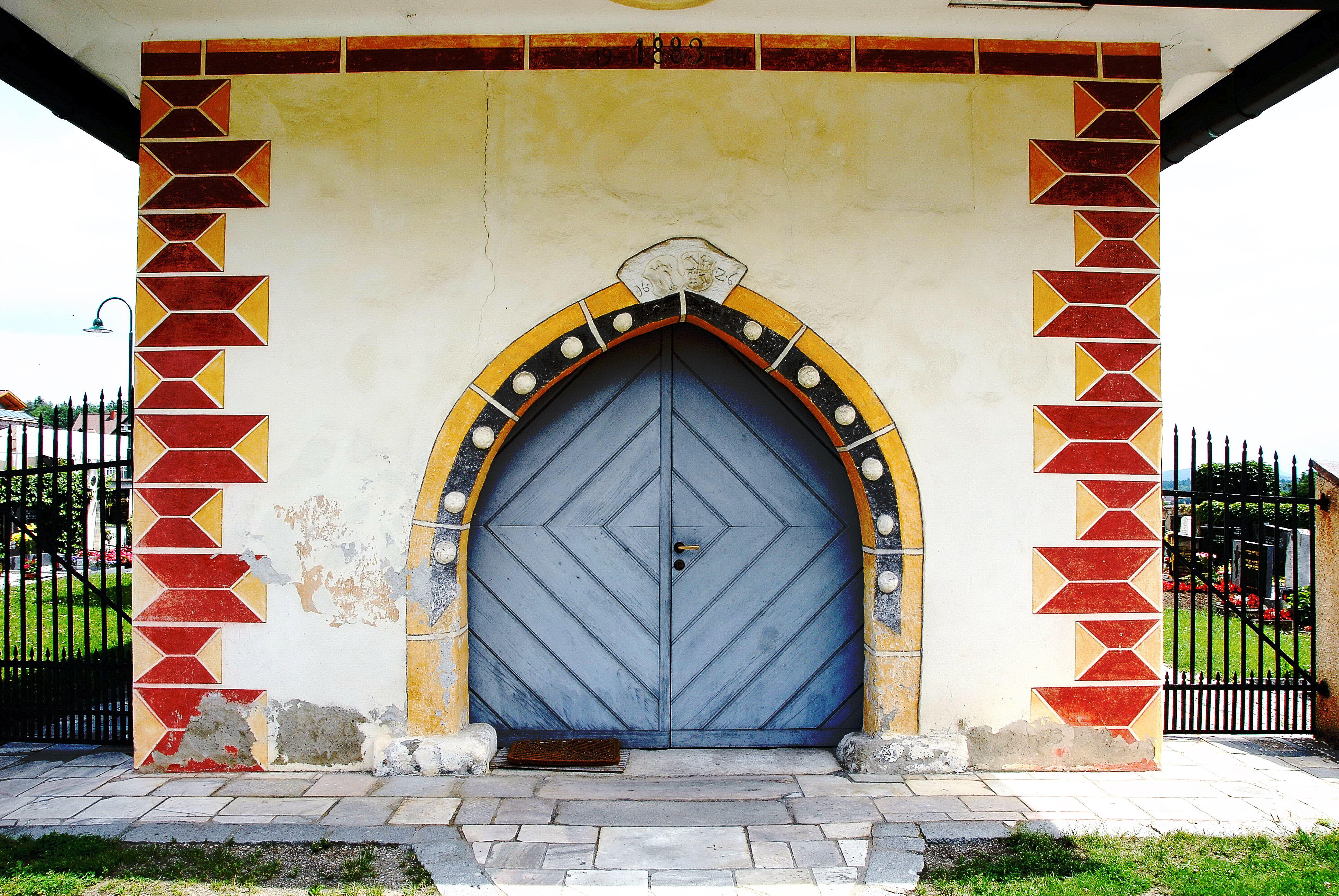 Porch of the parish church Saints George and James the Greater in Poggersdorf, municipality Poggersdorf, district Klagenfurt Land, Carinthia, Austria, EU